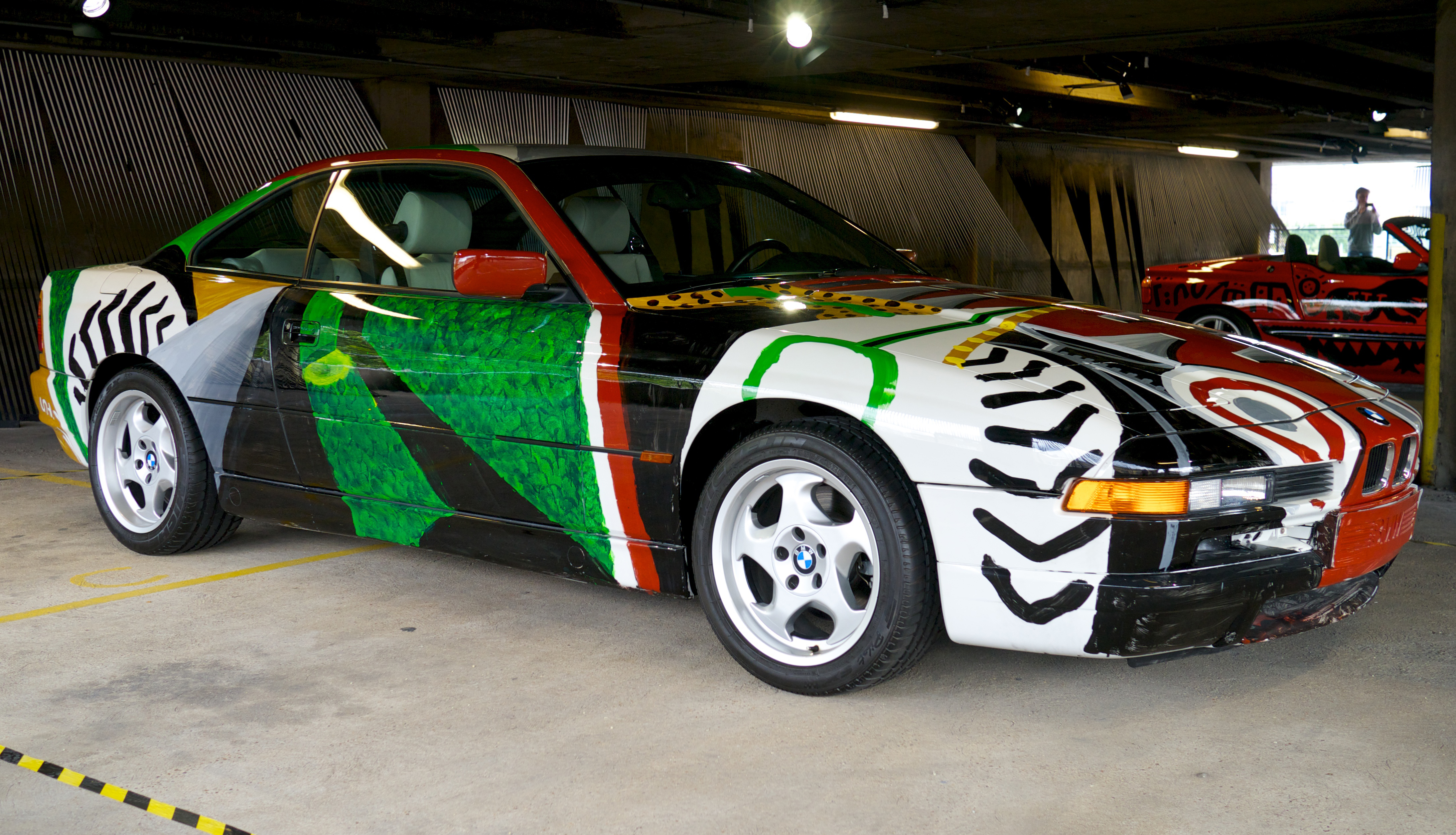 David Hockney's 1995 BMW 850CSi at a London show of the BMW Art Car Collection 1975-2010 (Hackney, London 2012) Hackney, London 2012